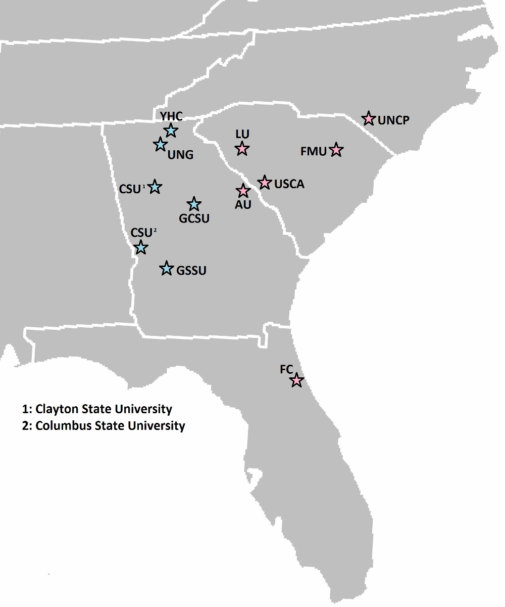 Map of Southeastern United States with member institutions in the Division II Peach Belt conference